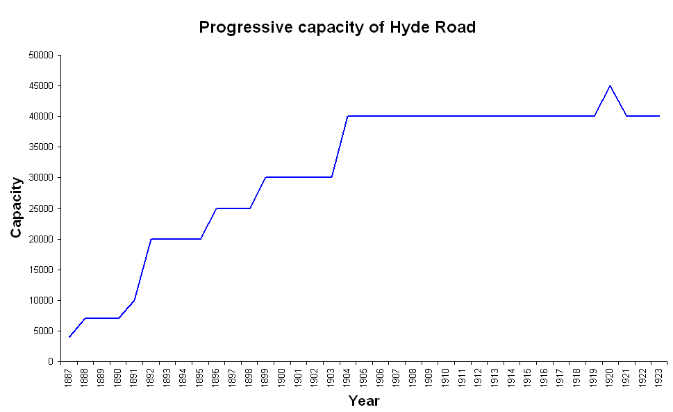 Progressive capacity of Hyde Road stadium, Manchester. Source data from Stadium History. Manchester City FC.